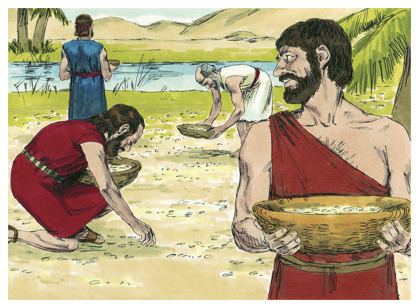 Biblical illustration of Book of Exodus Chapter 17